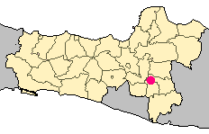 Locator image of Surakarta City, Central Java, Indonesia